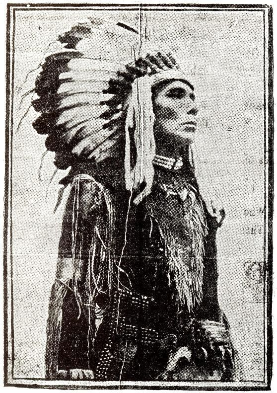 Photo of Chief Dark Cloud, whose real name was Elijah Tahamont. Photo was take sometime before his death in 1918.